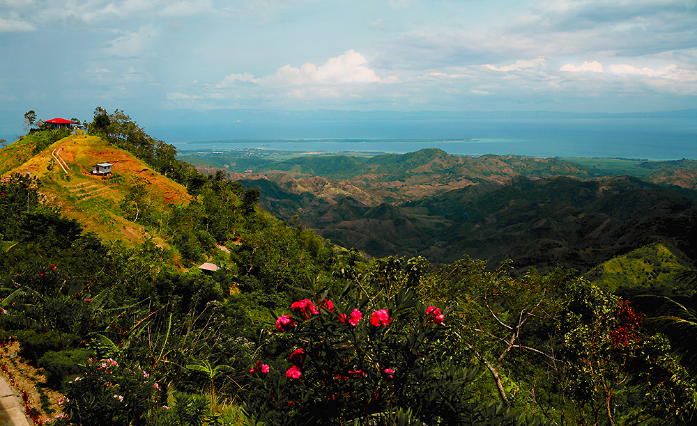 Coast of San Carlos City, Negros Occidental, Philippines, seen from Weddy's Place: in the background San Carlos City, Sipaway Island and Cebu.